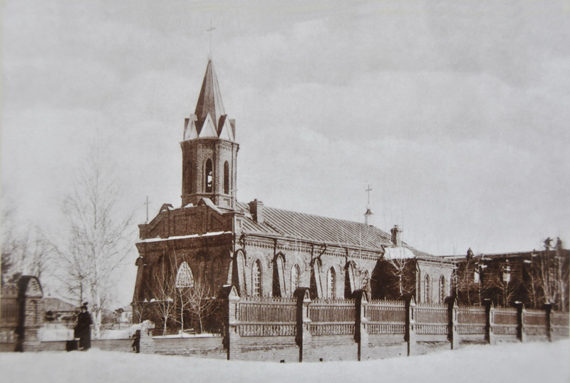 Novosibirsk (Novonikolayevsk), Old Roman Catholic Church, built in 1905, closed in the 1930s, destroyed in the 1960s